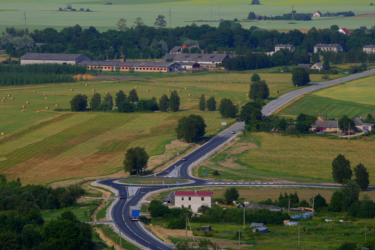 Kiviõli, Estonia